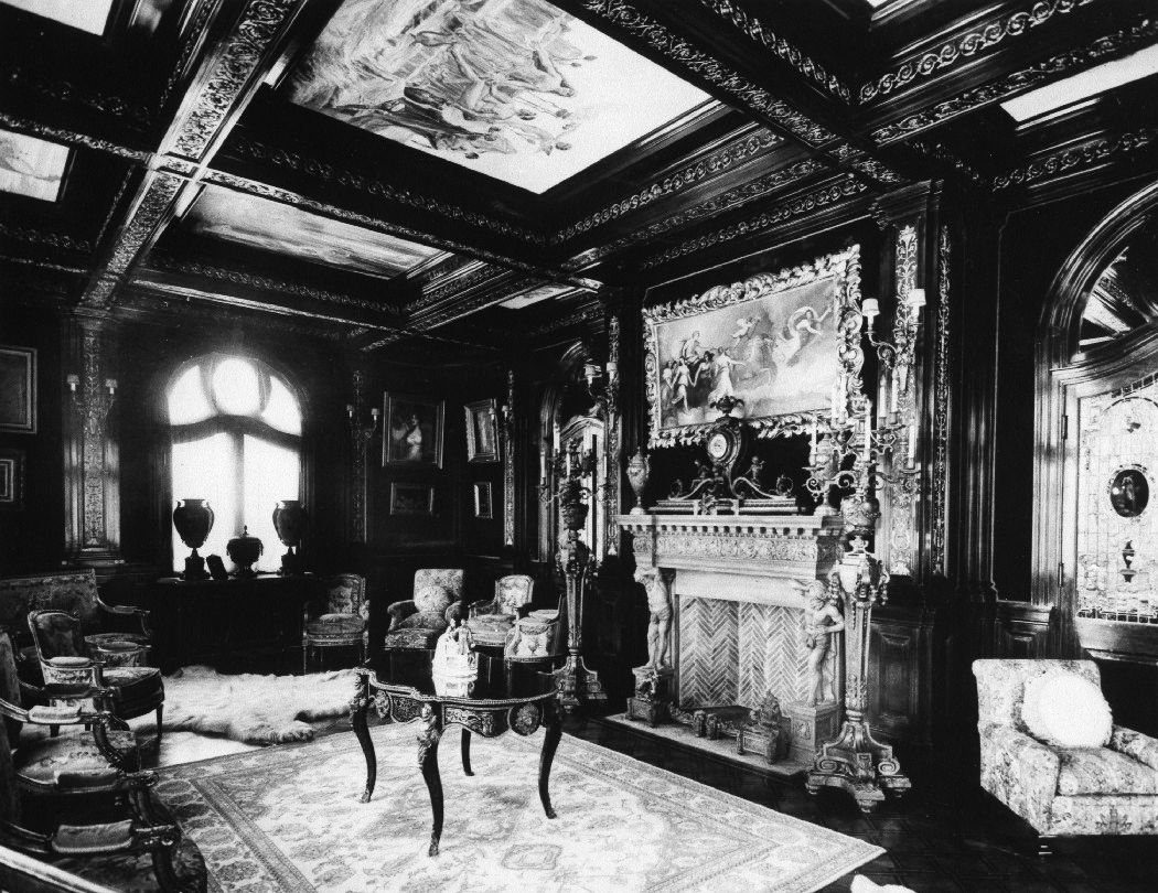 Drawing room, Oscar Dufresne House (Château Dufresne), 4040 Sherbrooke Street East, Montreal, Quebec, Canada.